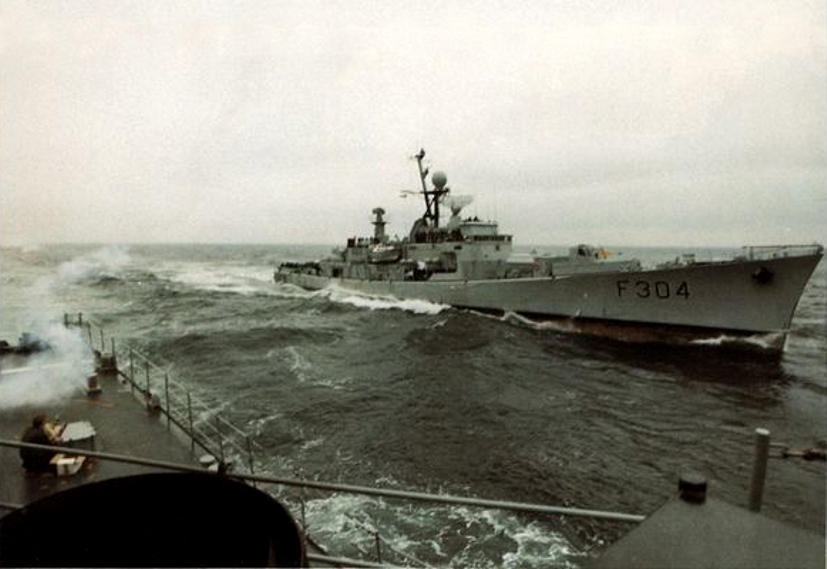 The Royal Norwegian Navy frigate KNM Narvik (F304) underway in the Atlantic Oean in 1983, while operating with the NATO Standing Naval Force Atlantic (STANAVFORLANT). The photo was taken from the U.S. Navy destroyer USS Comte de Grasse (DD-974).